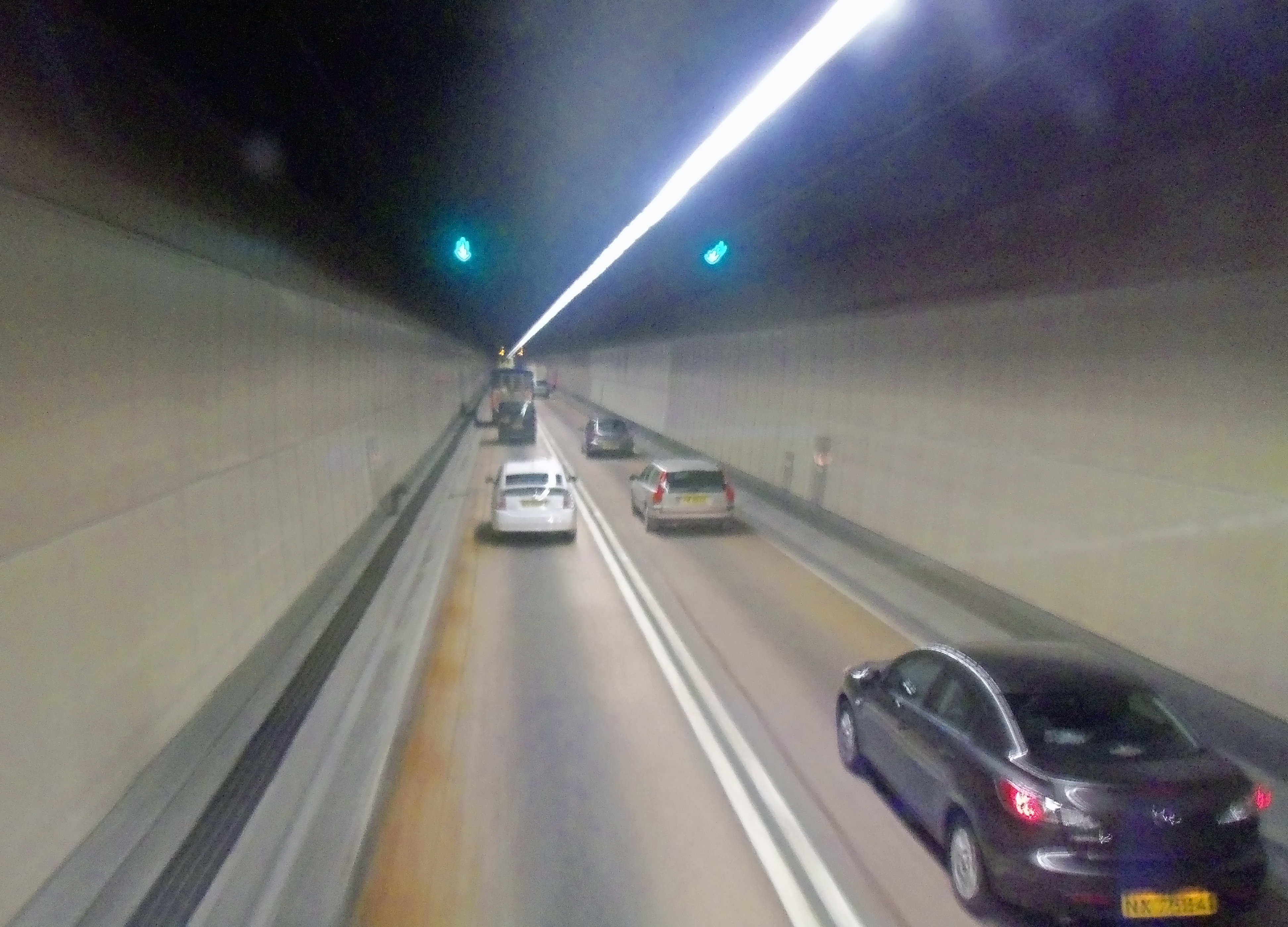 Inside of Aberdeen Tunnel, northbound bore, seen from the upper deck of the #260 bus